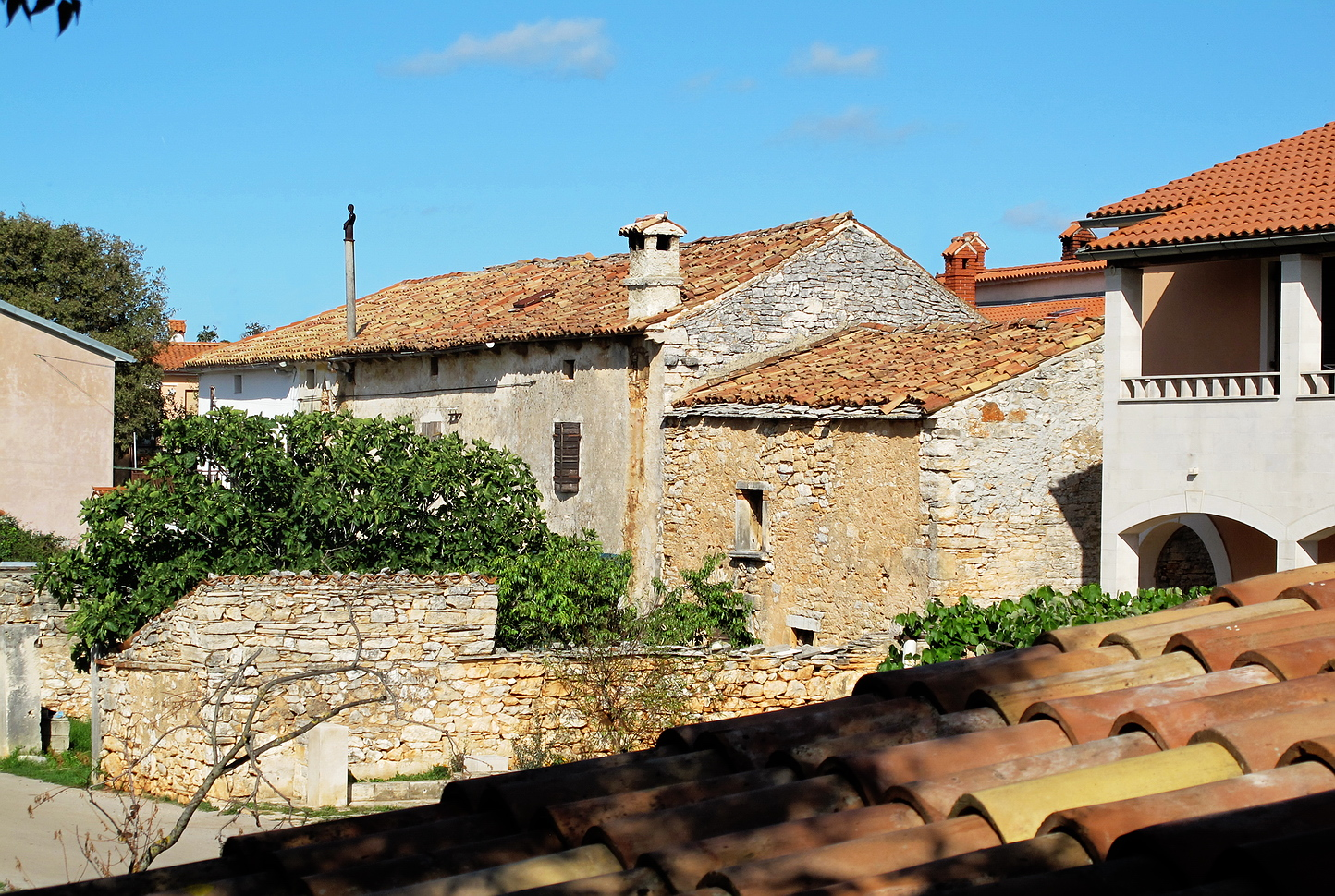 An old stone house in the village of Muntic, in Istria.